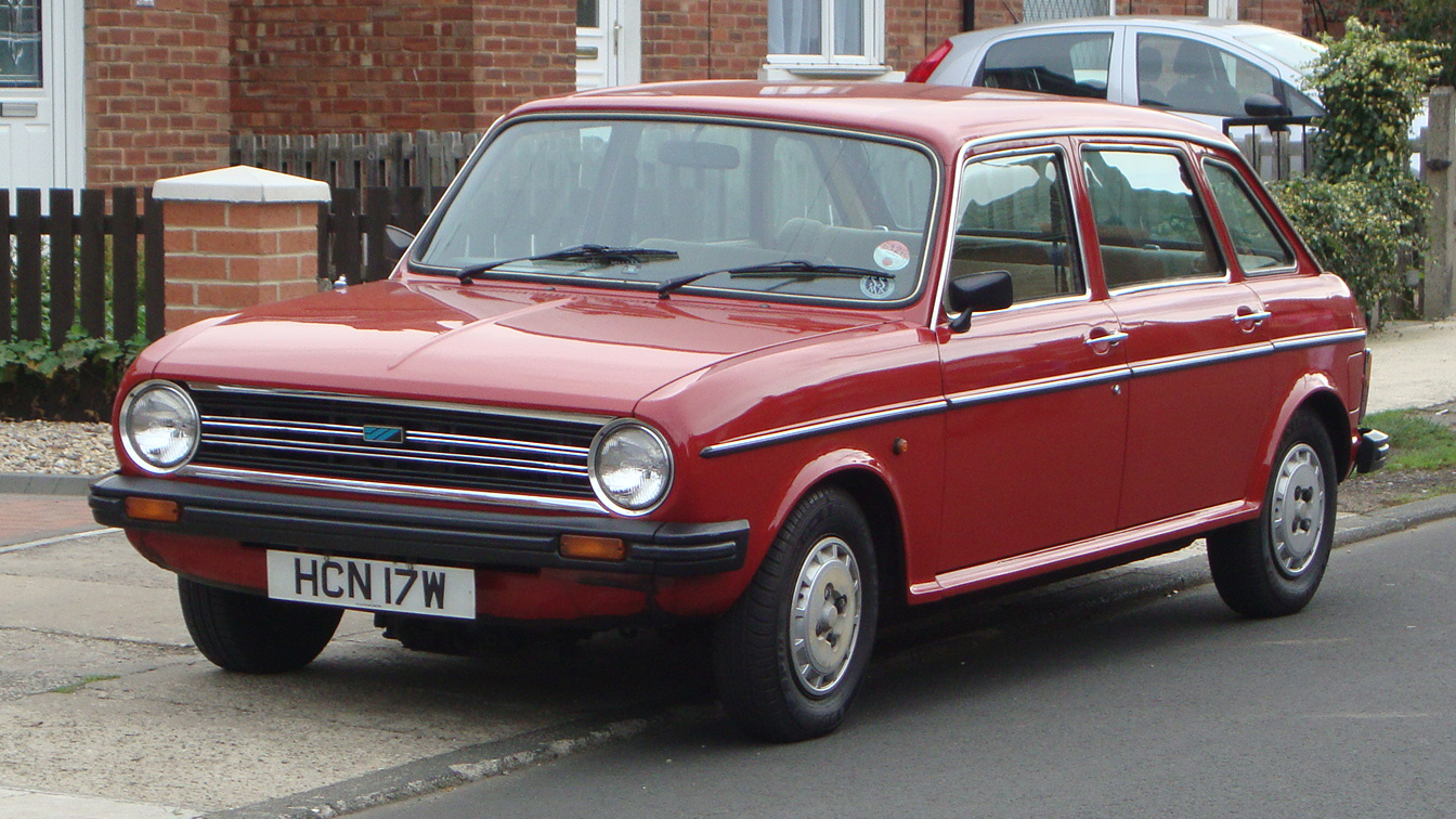 Manufacturer Austin-Morris, Model Maxi 2 HL, Colour Emberglow, Year 1981, Engine size 1748cc, Location Chester-le-Street Durham UK